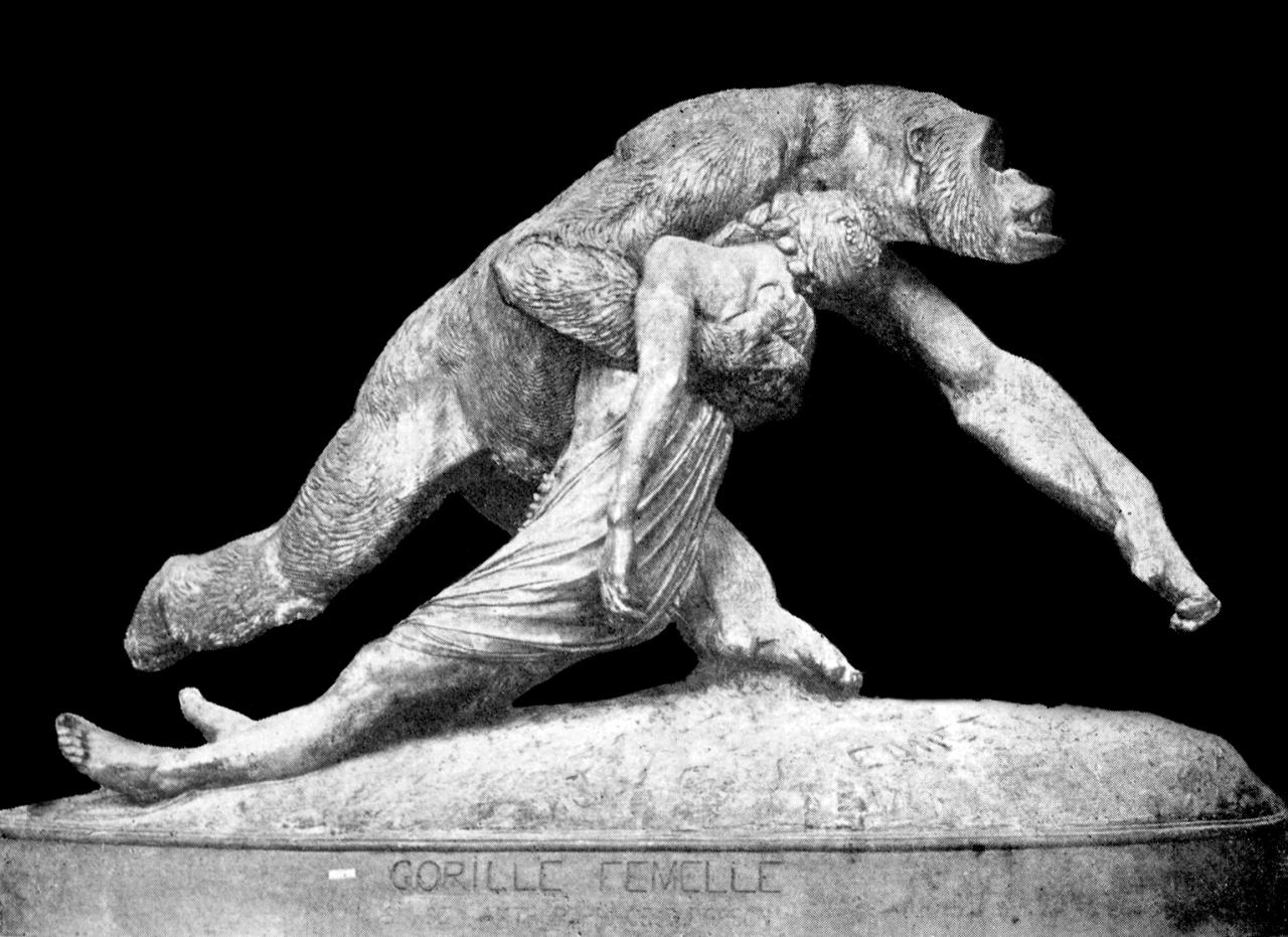 Plaster exhibited at the Salon de Paris in 1859 and destroyed in 1861. Photograph reproduced in Les Maîtres de l’art: Fremiet, by Philippe Fauré-Fremiet, published by Plon, Paris, p.118.